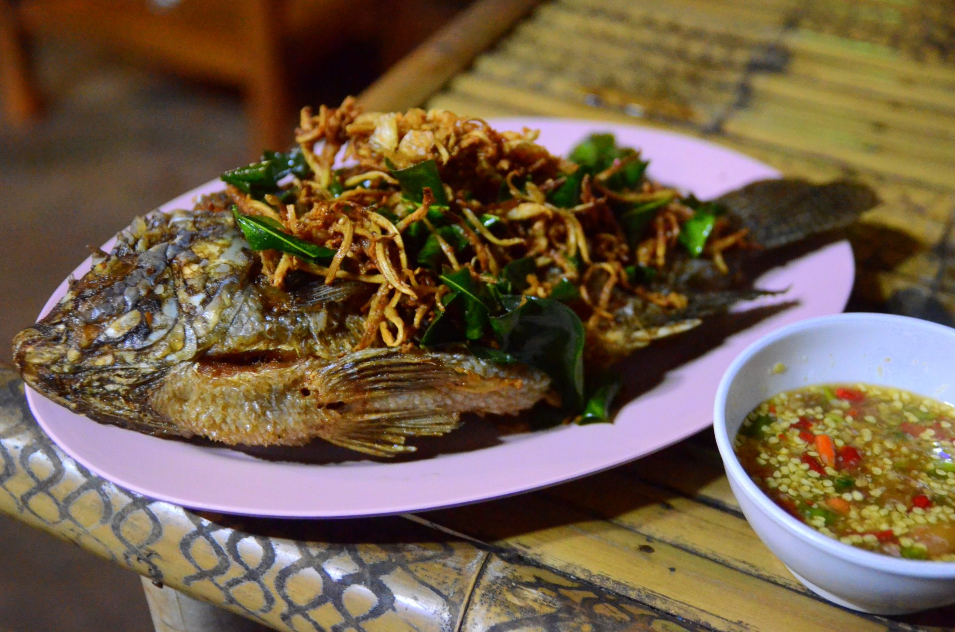 Pla nin thot samun prai (Thai script: ปลานิลทอดสมุนไพร) is deep-fried pla nin ("Nile Tilipia") served with deep-fried herbs such as lemongrass, kaffir lime leaves, garlic, and fingerroot ("Boesenbergia rotunda"). A chilli-lime dip is served on the side as a condiment.